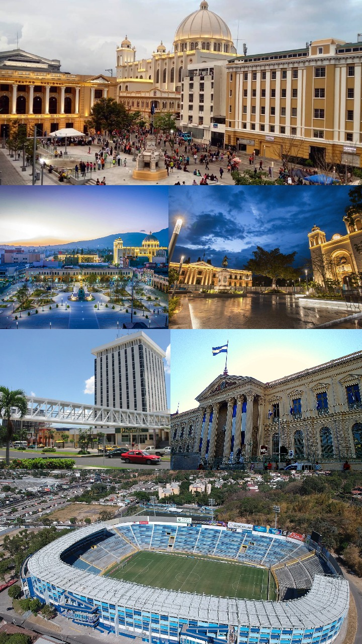 Photomontange of San Salvador